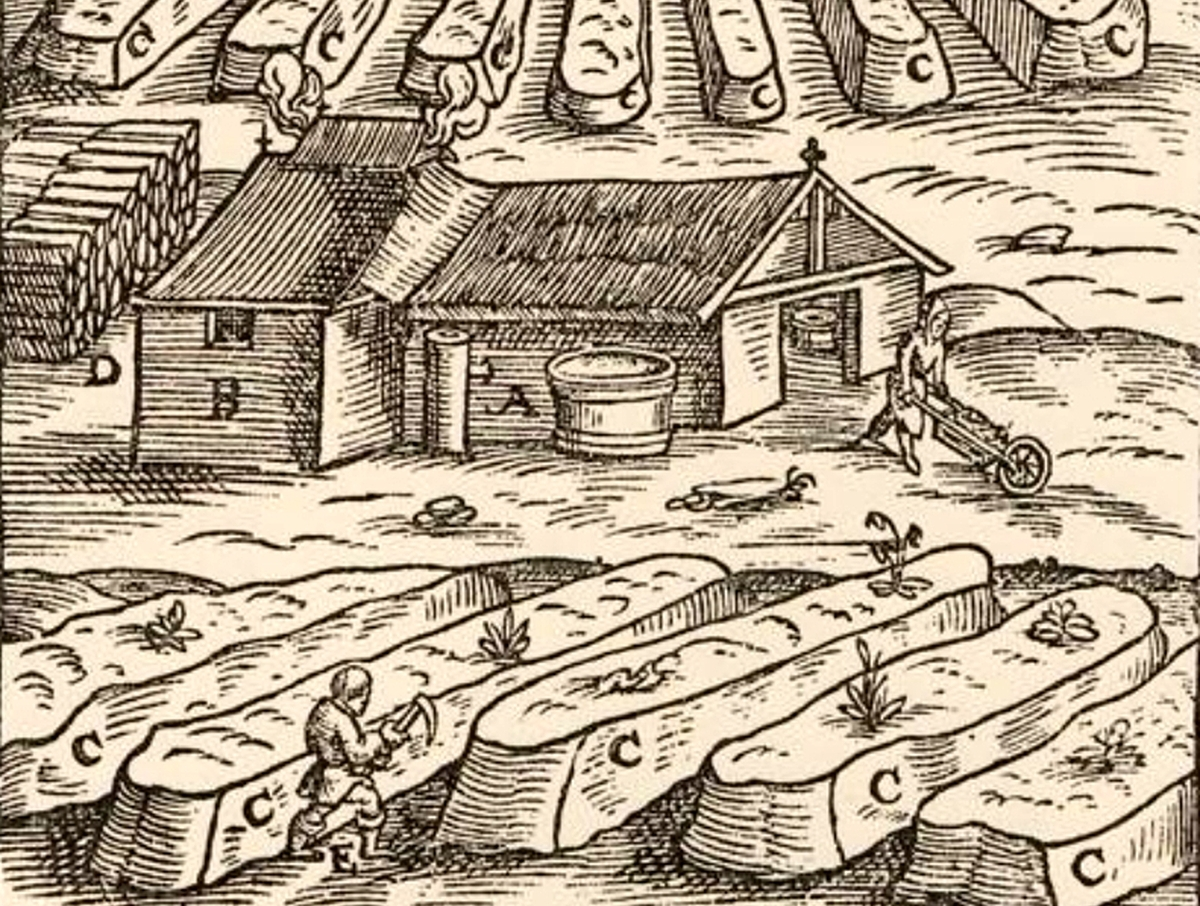 A typical nitrary (Germany, circa 1580) with leaching deposits (A) filled with decaying vegetal matterial mixed with manner. A worker collects efloresced saltpeter from deposits, transporting it then to be concentrated in the factory (B) boilers. Una típica salnitrera (Alemanya, circa 1580) amb dipòsits de lixiviació (A) plens de matèries vegetals en descomposició barrejades amb excrements. Un treballador recull el nitre eflorescent dels dipòsits de lixiviació per passar-lo després a ser concentrat per ebullició a les calderes de la factoria (B). Una típica salnitrera (Alemania, circa 1580) con depósitos de lixiviación (A) llenos de materias vegetales en descomposición mezcladas con excrementos. Un trabajador recoge el nitro eflorescente de los depósitos de lixiviación para pasarlo luego a ser concentrado por ebullición en las calderas de la factoría (B).